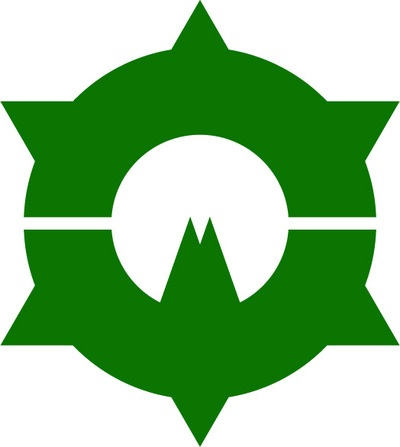 Toei Aichi cahpter